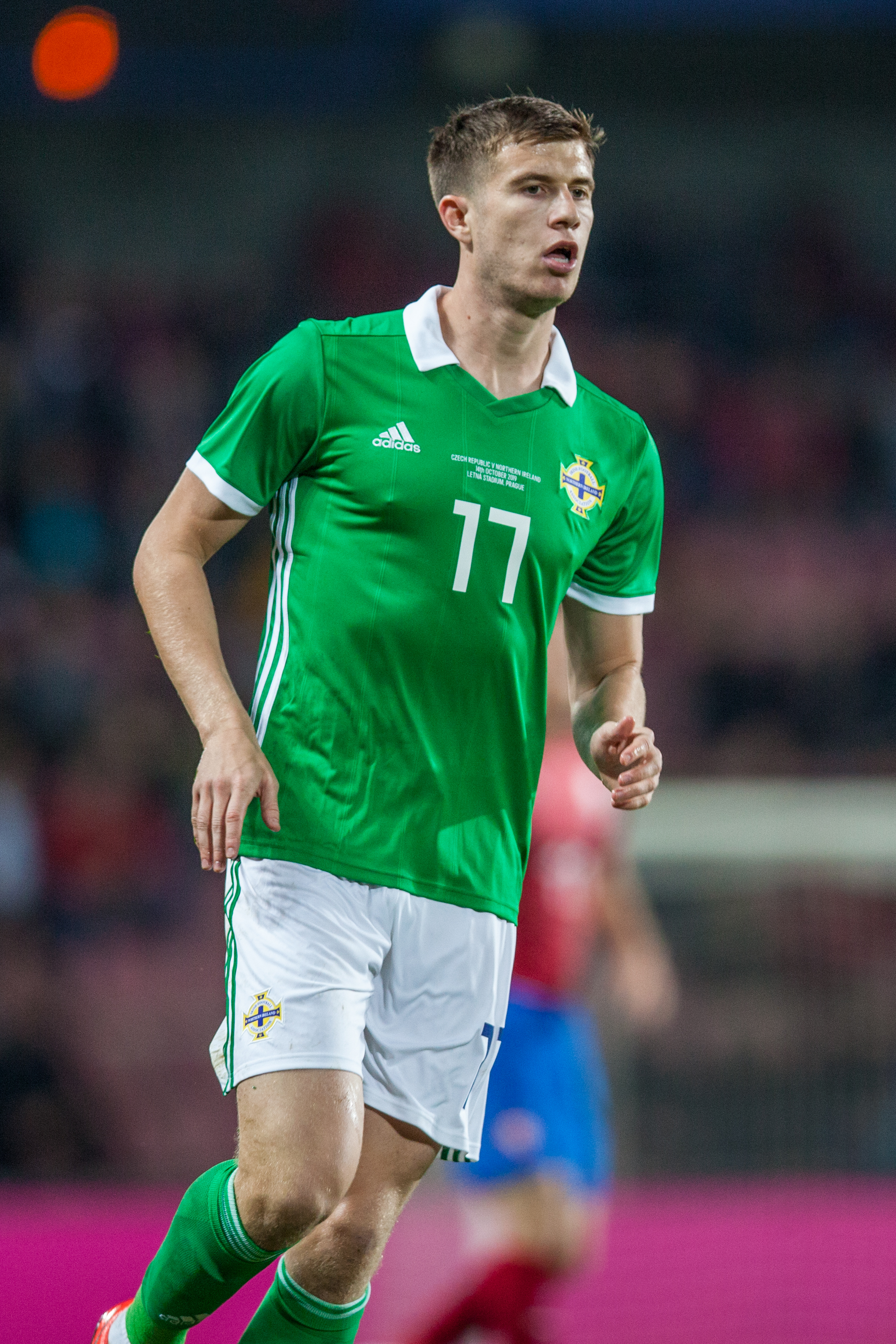 Paddy McNair in an international friendly match between Czech Republic and Northern Ireland (2:3), Stadion Letná (Prague) 2019-10-14 The making of this work was supported by Wikimedia Austria. For other files made with the support of Wikimedia Austria, please see the category Supported by Wikimedia Österreich. Personality rights warningAlthough this work is freely licensed or in the public domain, the person(s) shown may have rights that legally restrict certain re-uses unless those depicted consent to such uses. In these cases, a model release or other evidence of consent could protect you from infringement claims.